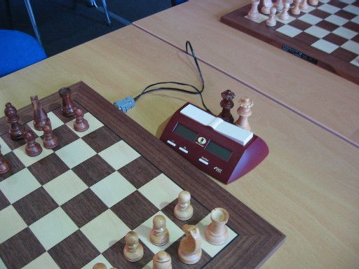 electronic chessboard, clock and additional B&W queens for promotion, en:35th Chess Olympiad